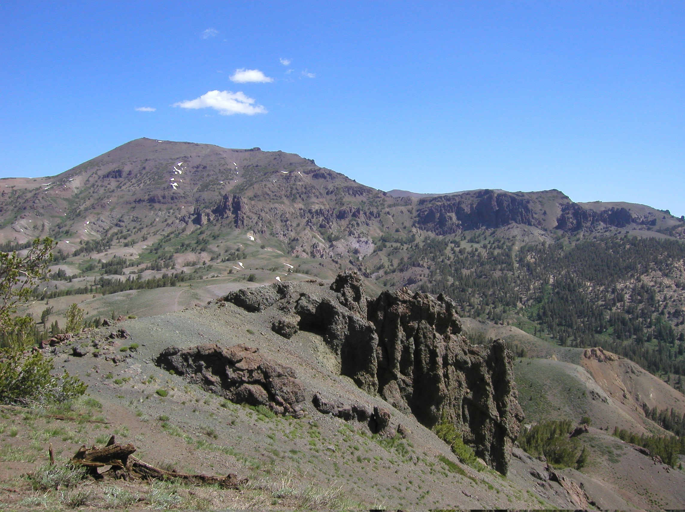 View of the Sierra Nevada range looking northward from Sonora Pass. The Pacific Crest Trail is visible along the ridge, and Sonora Peak is on the left.